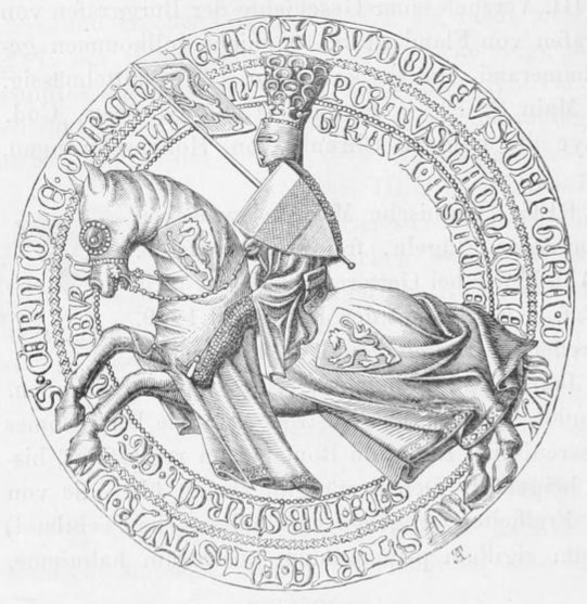 Rudolph I of Bohemia